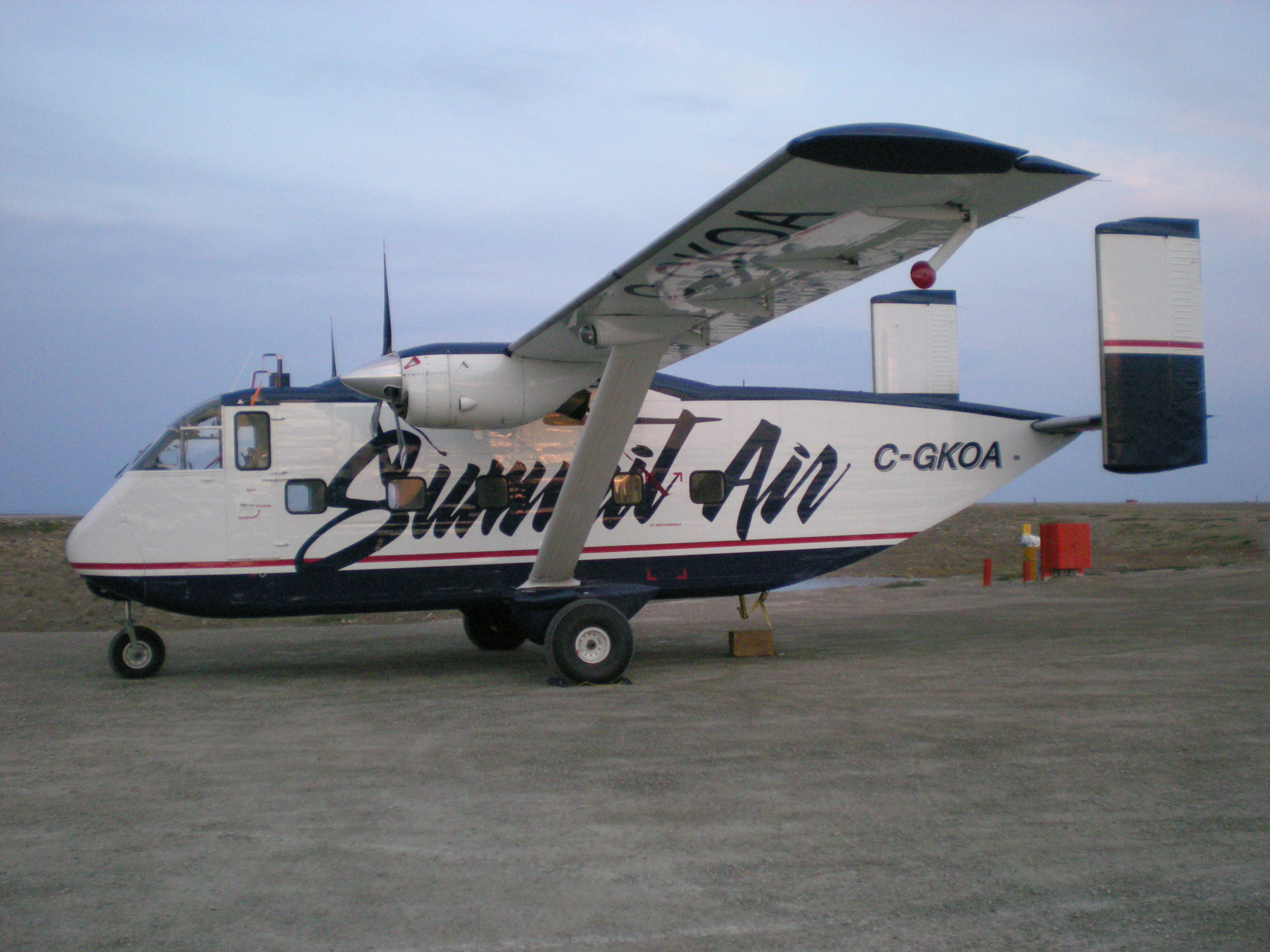 Side view of Summit Air's Short SC.7 Skyvan Series 3 aircraft at Cambridge Bay airport.